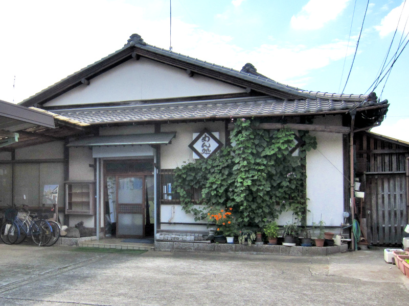 Noodle Doi Building